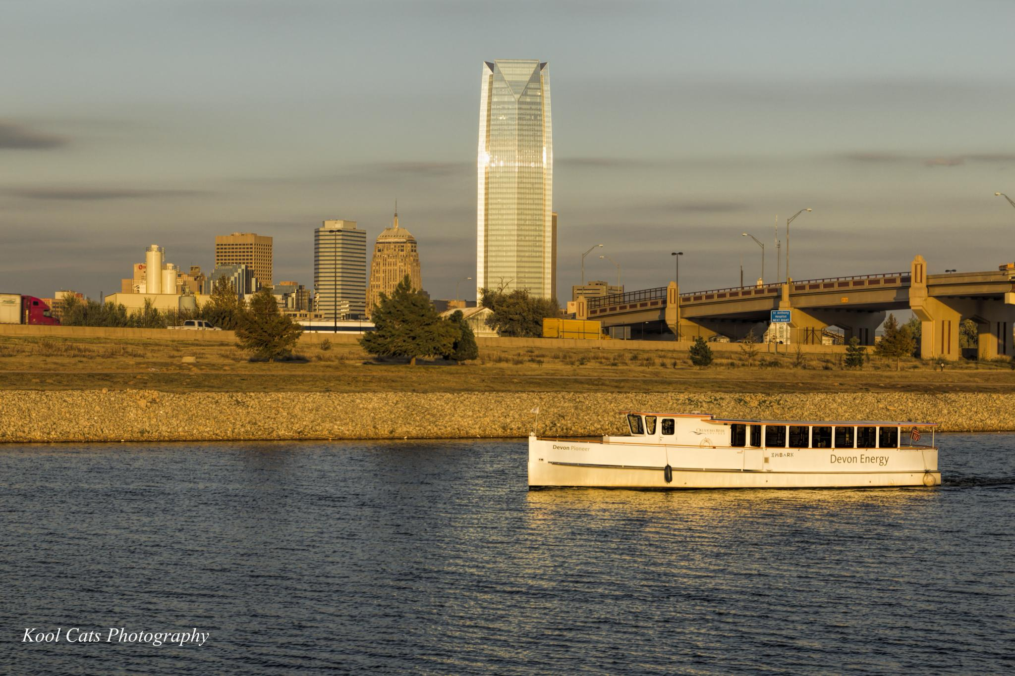 Cruise along the Oklahoma River in Oklahoma City.